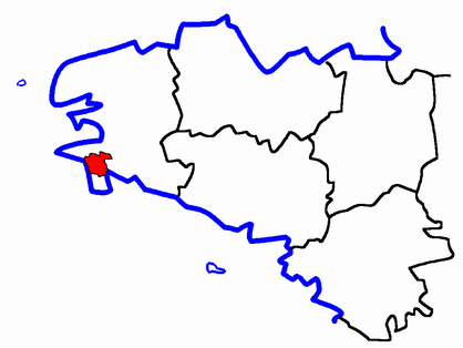 Description: Map for localisazion of cantons of Bretagne region in France Source: made by Hervé Tigier in april 2005 from another large map (published in 1990)